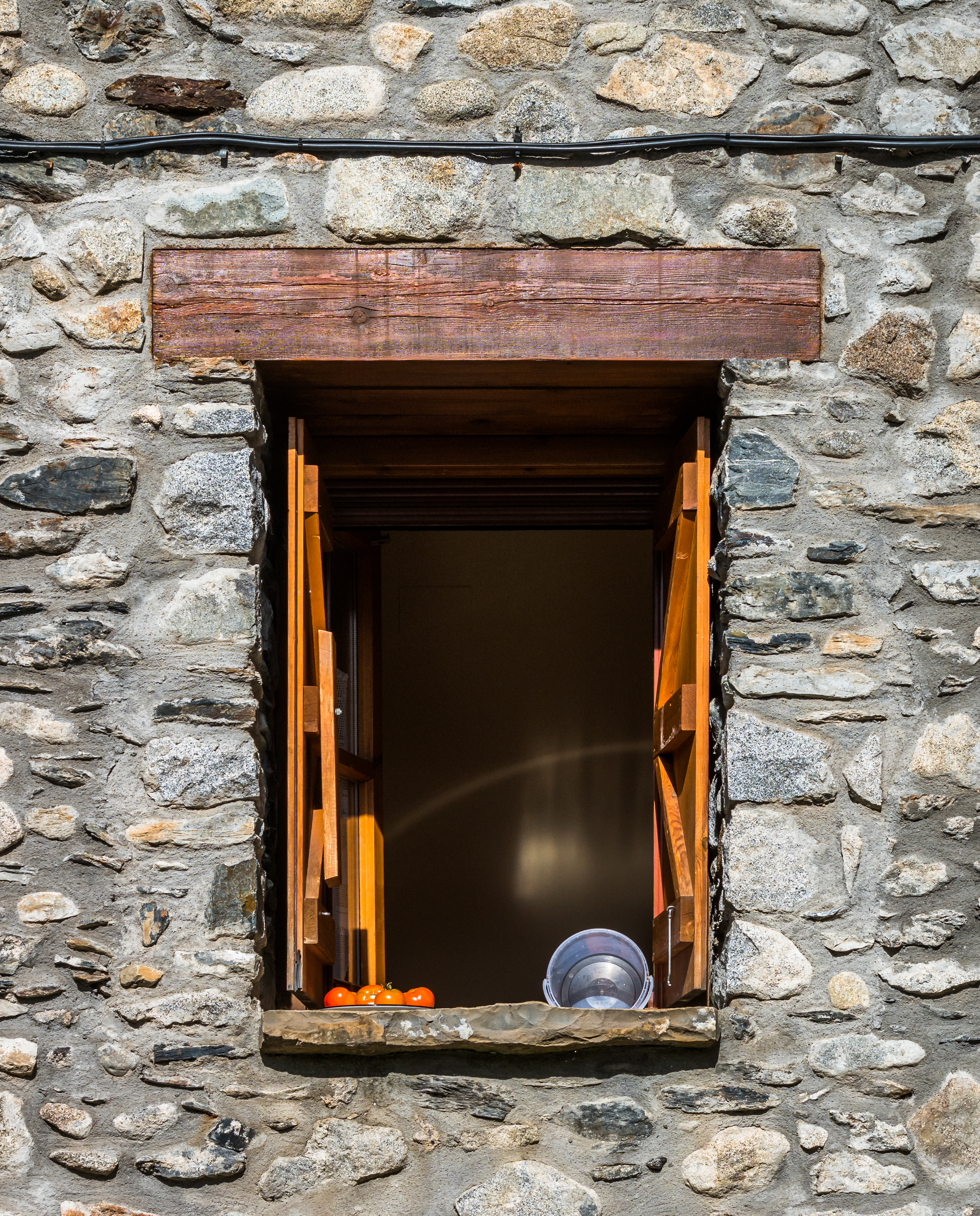 Window with tomatoes and a plastic bucket in Eriste. Sahún, Huesca, Aragon, Spain